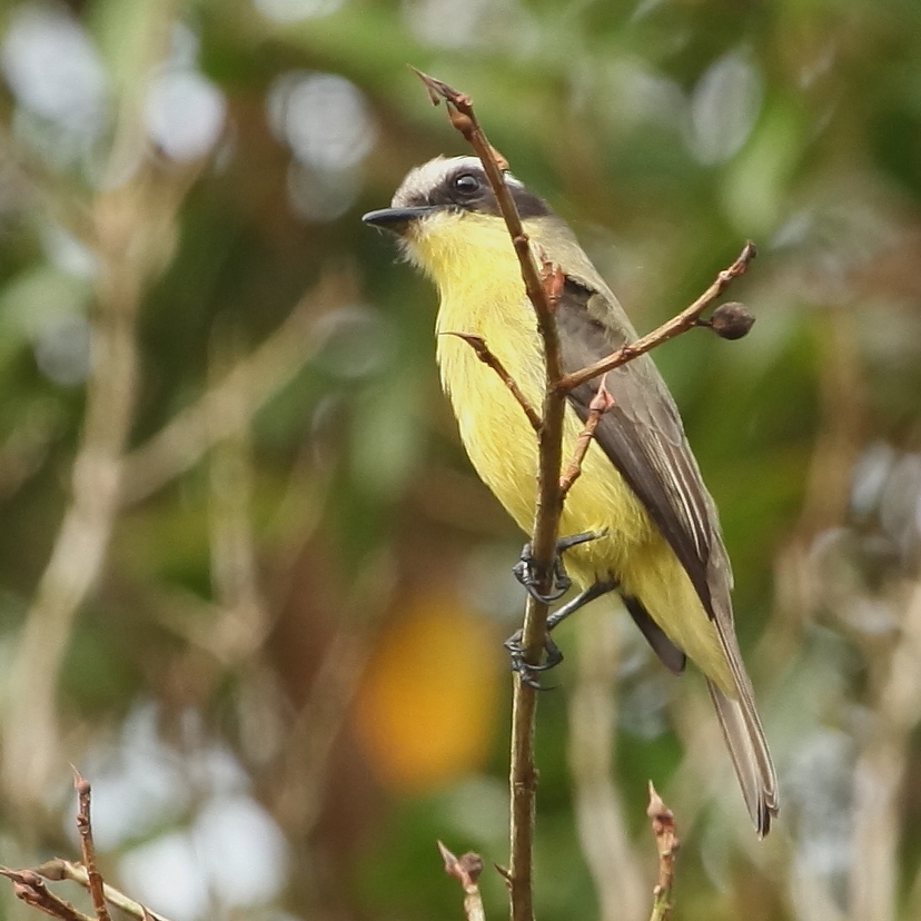 Three-striped Flycatcher at Peruíbe - SP - Brazil